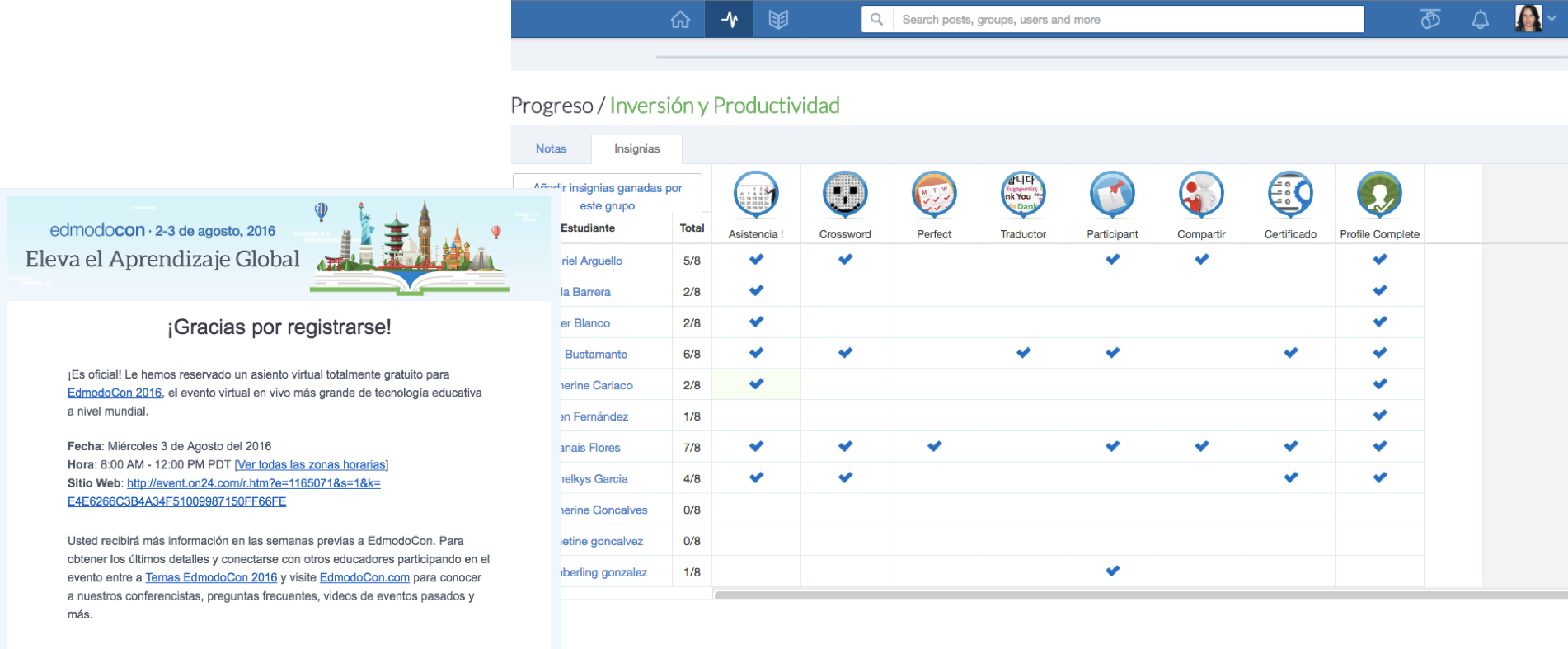 Captura de la invitacion al webinar de edmodo, y a una sesión de edmodo donde de le otorgan insignias a los estudiantes en una asignatura